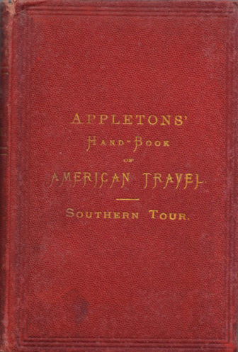 Cover of: Appleton's_Hand_Book_of_American_Travel: Southern_Tour (NY: D. Appleton)